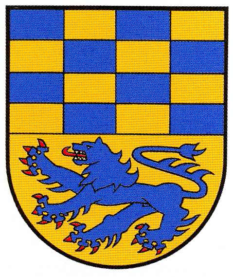 Coat of Arms of Samtgemeinde Velpke